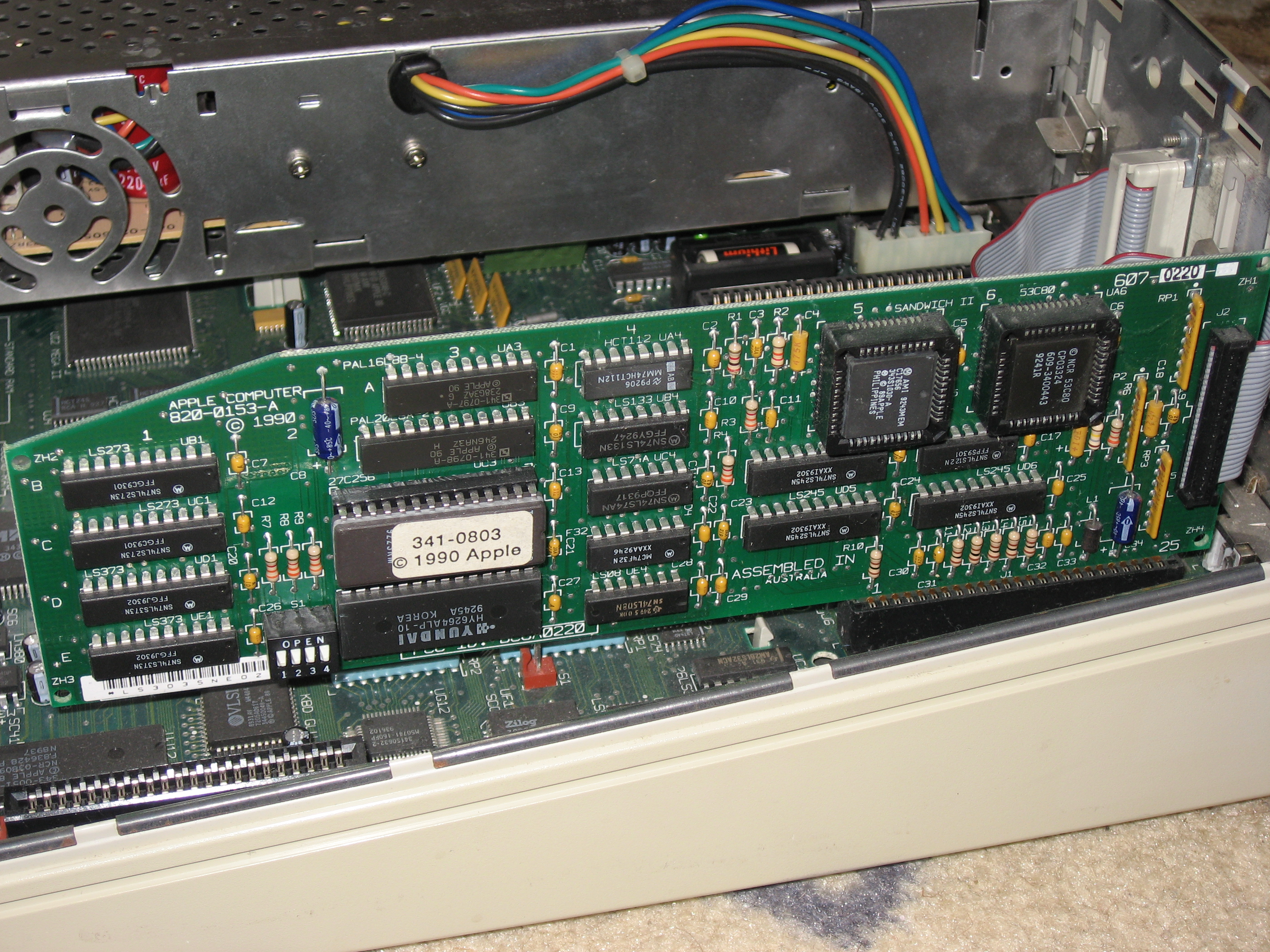 Apple SCSI card installed in Apple IIgs / Tarjeta SCSI de Apple instalada en un Apple IIgs